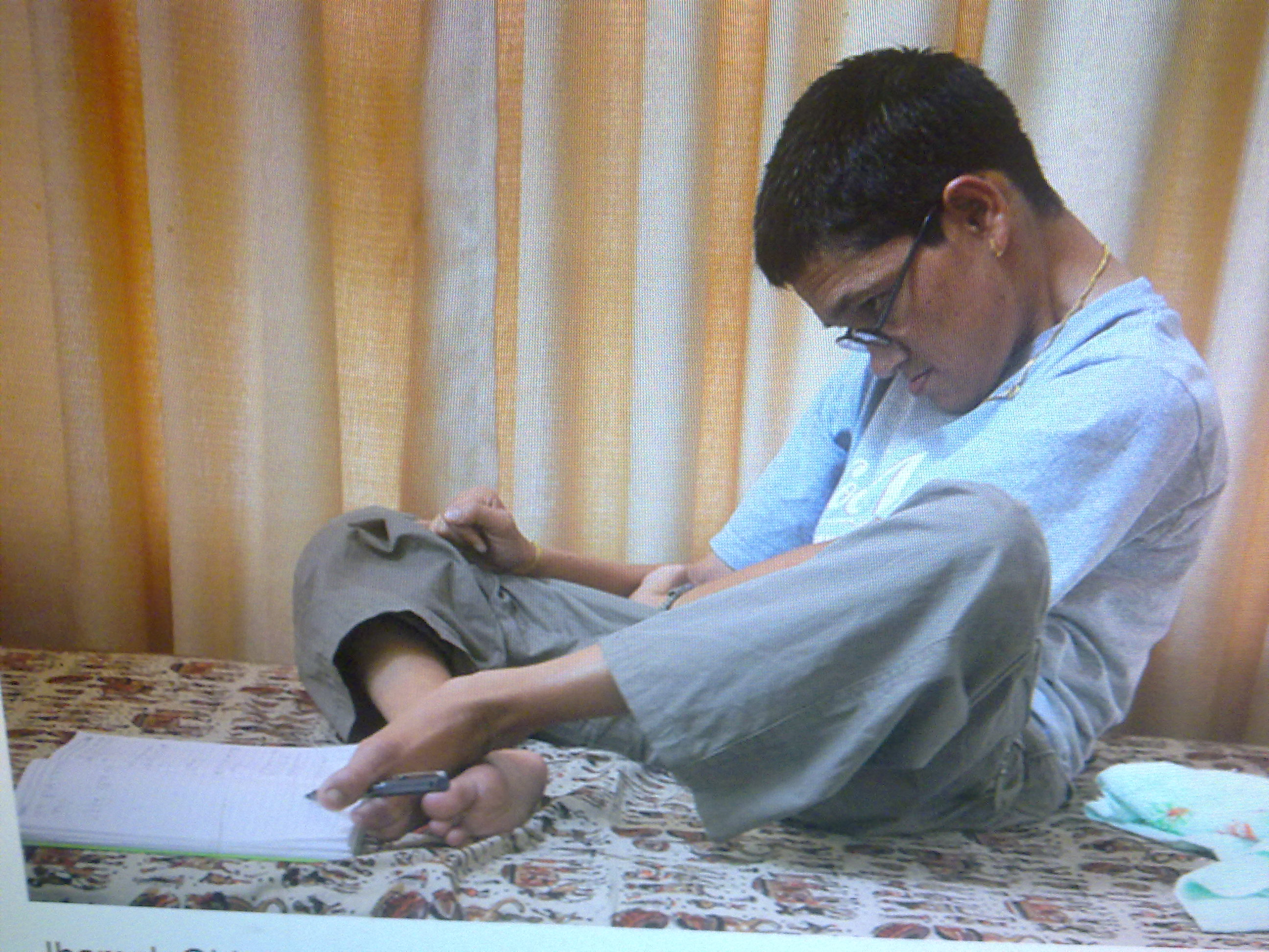 Image of great poet of Nepali literature.Taken by N79 mobile camera from my own magazine